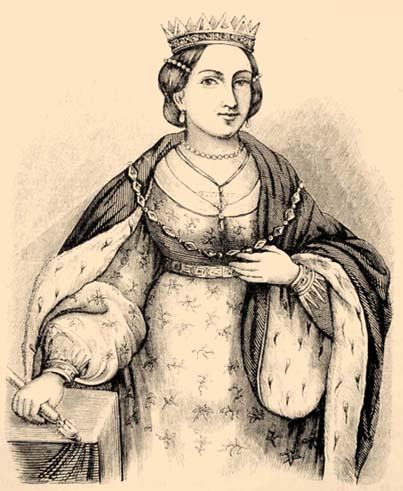 Tomasina Morosini